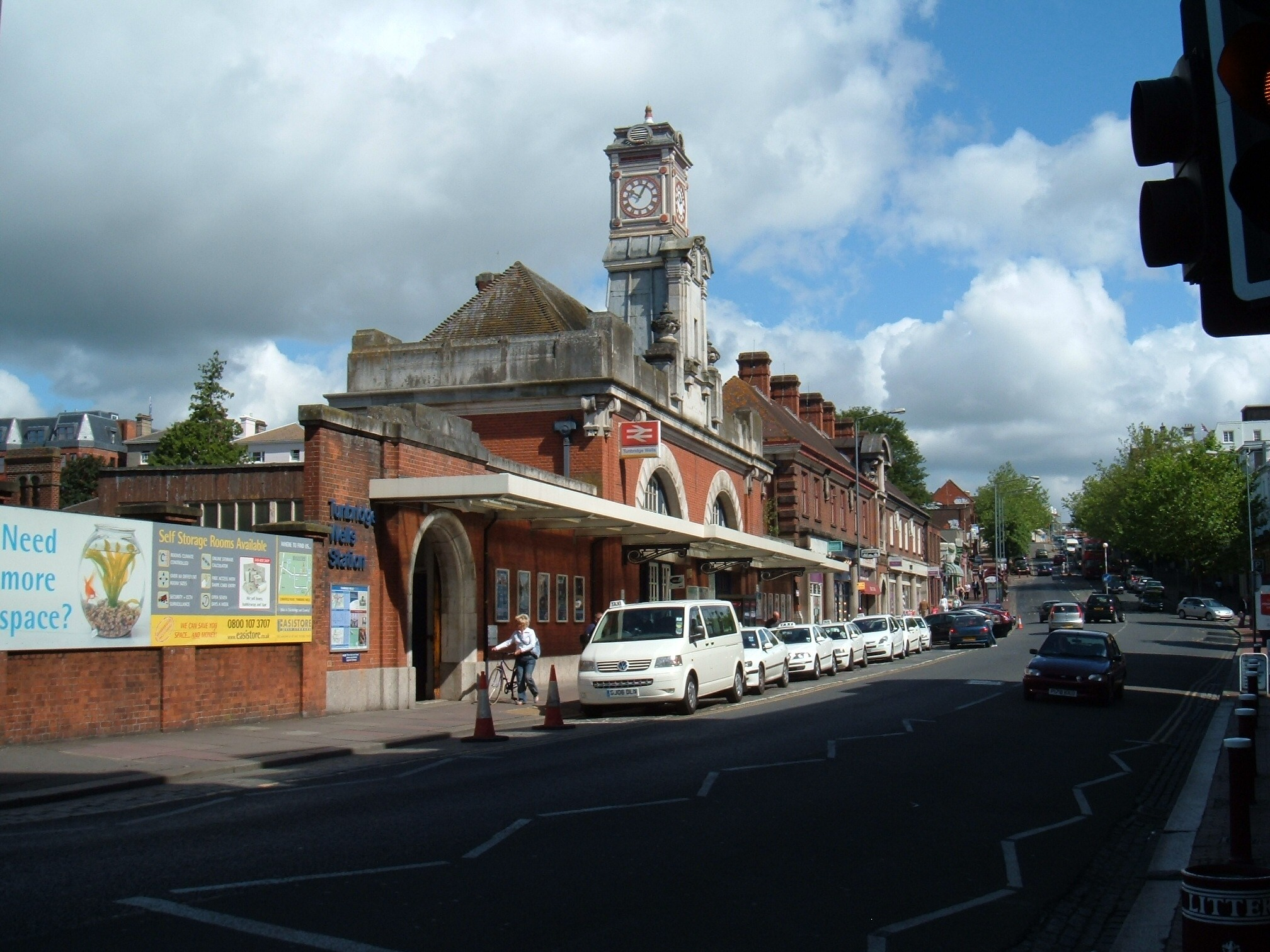 Tunbridge wells, Kent, england, railway staion eastern approach. Taken by contributor June 2006.